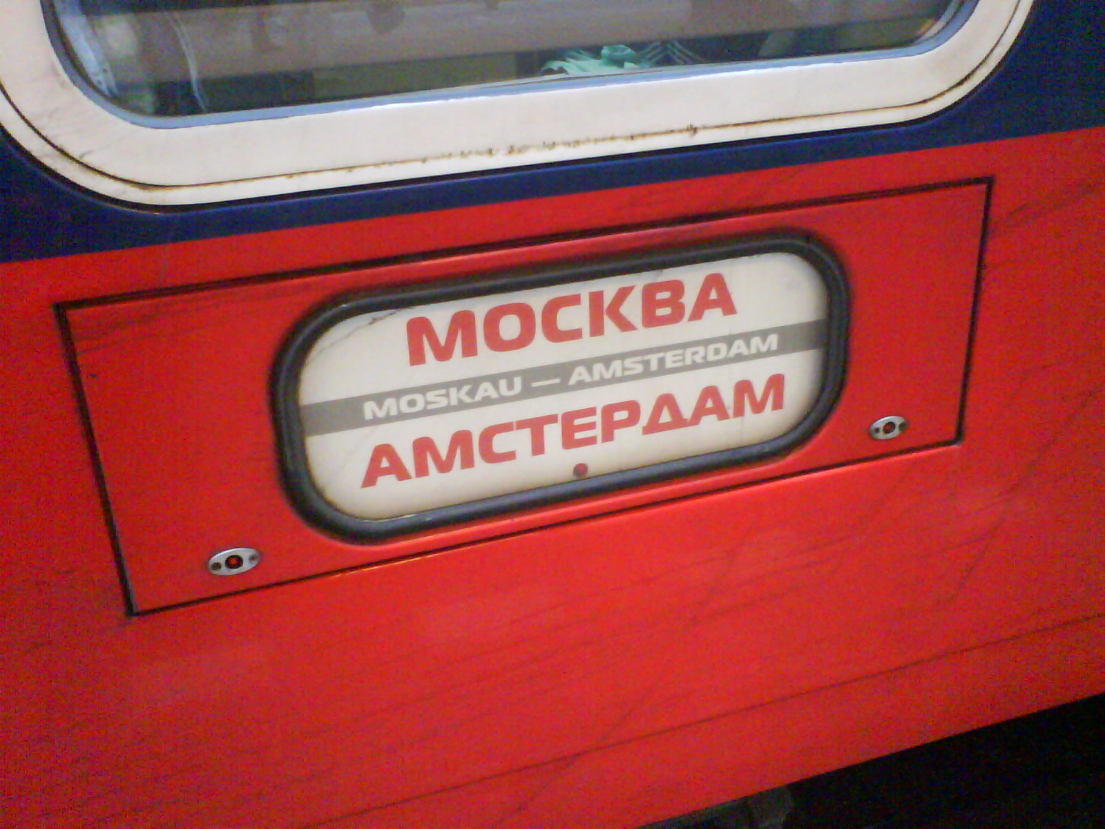 Moscow - Amsterdam train at Utrecht central station. Russian sleeping car with the destination indicator for Moscow - Amsterdam.